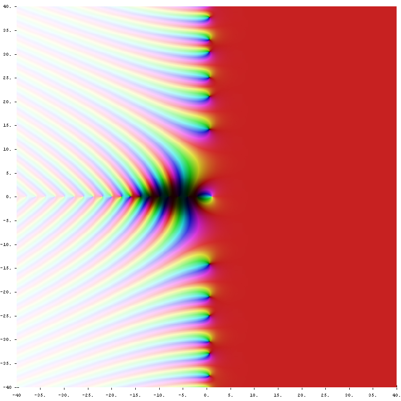 function Zeta[z] in the complex plane (horizontal axis = Re(z) and vertical axis = Im(z))